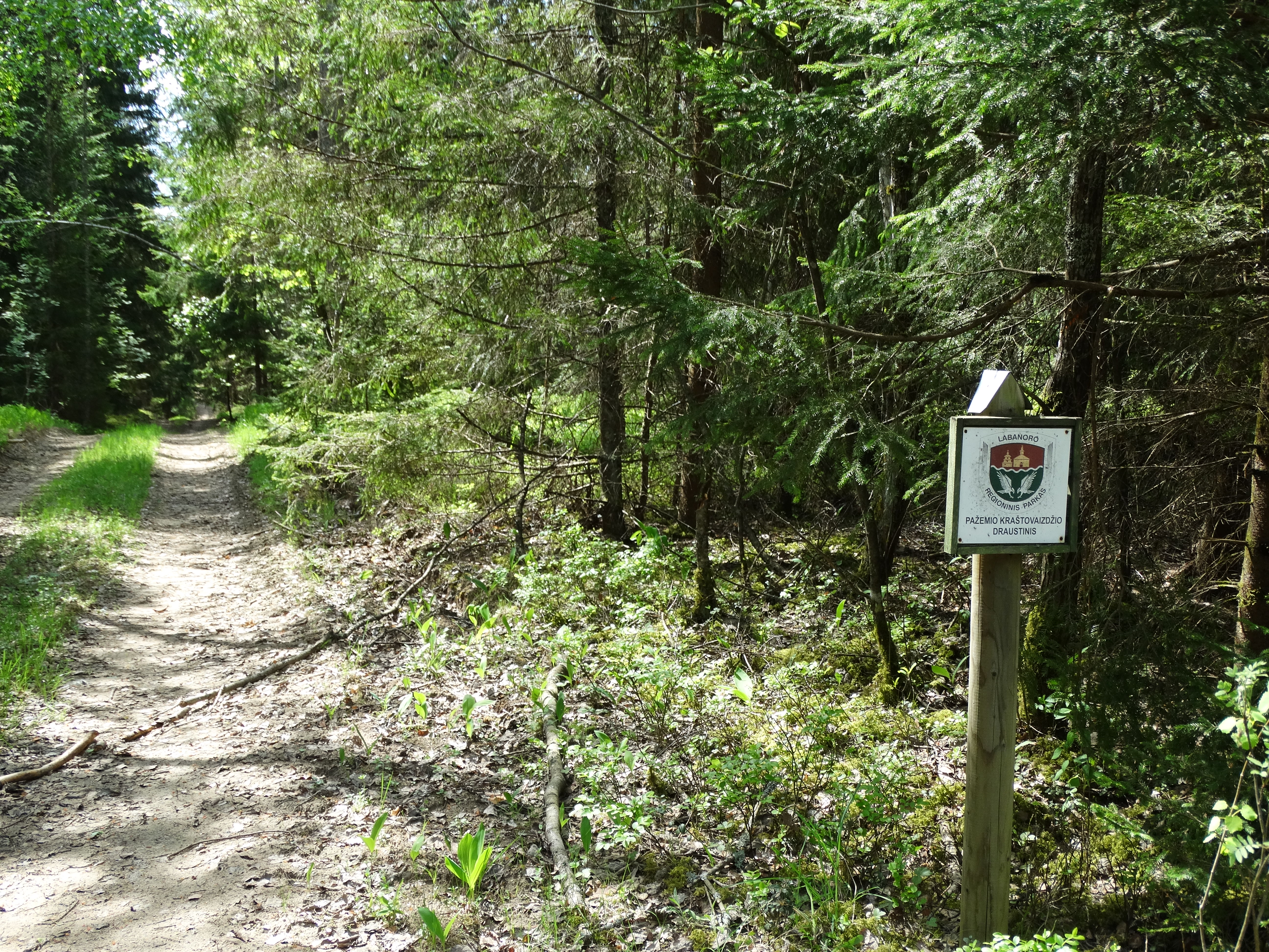 Pažemys Landscape Reserve, Švenčionys district, Lithuania